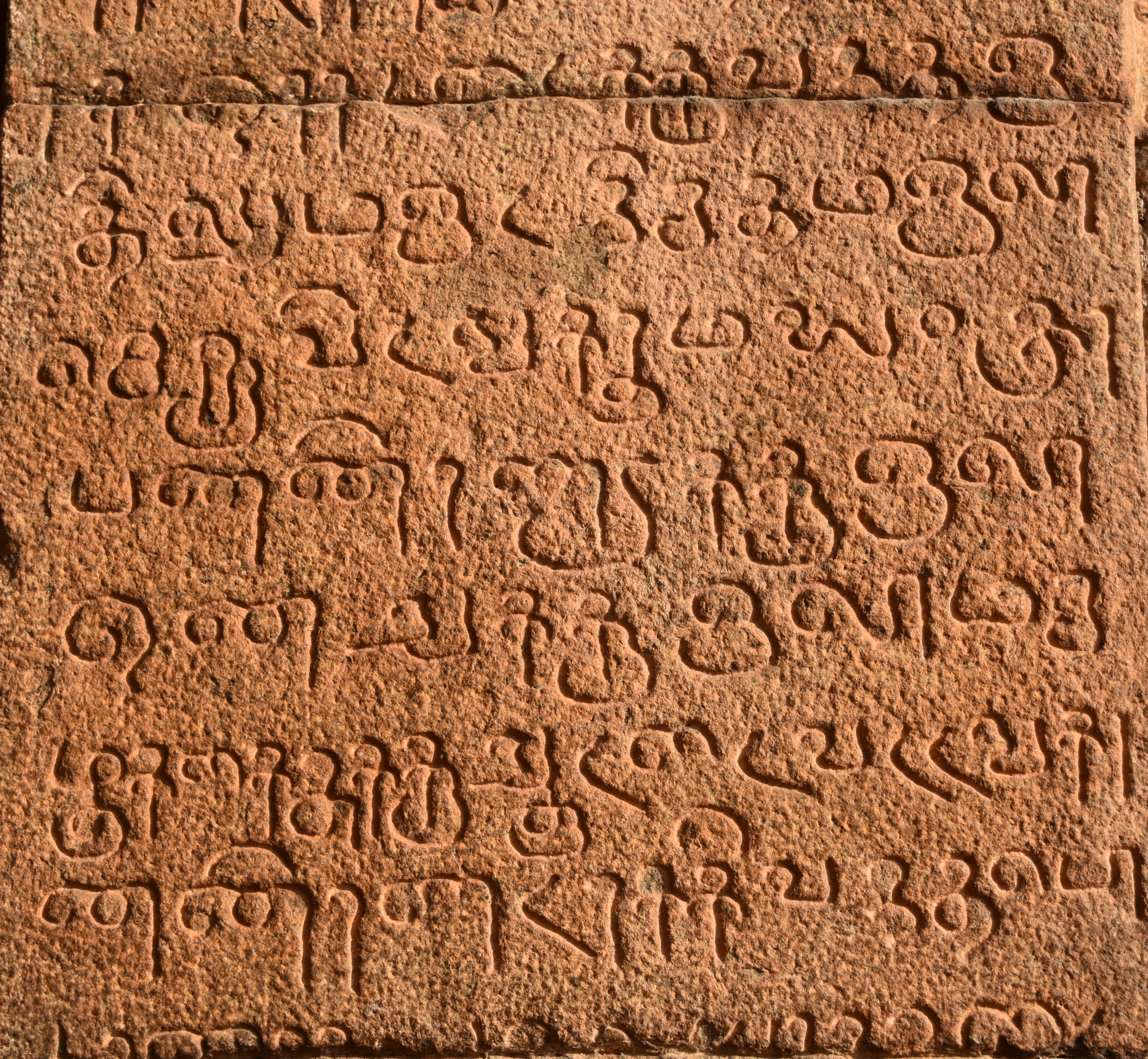 This is a Shiva temple from the Shaiva Siddhanta tradition of Hinduism, and a part of a UNESCO world heritage site. The circumambulatory passage (the pradakshinapata) houses three major sculptures of Siva. The walls of the pradakshinapata once contained narrative wall paintings. However, in the 17th century these repainted over in Nayak style. The originally painting has been partially restored to expose the Chola period painting by the Archaeological Survey of India. The Chola period paintings is discernible from the Nayak period ones as the former are highly stylised and painted with subtle earth colours while the latter ones are cruder with black-outlined and executed with bright colours. The theme of the Chola paintings is Saivitie, influenced on the lives of the Saiva Bhakti movement saints, the Nayanars. The upper ambulatory pathway depicts 81 dance postures (karanas) of the Natya Sastra of Bharata, out of the 108 karanas discussed in the text.